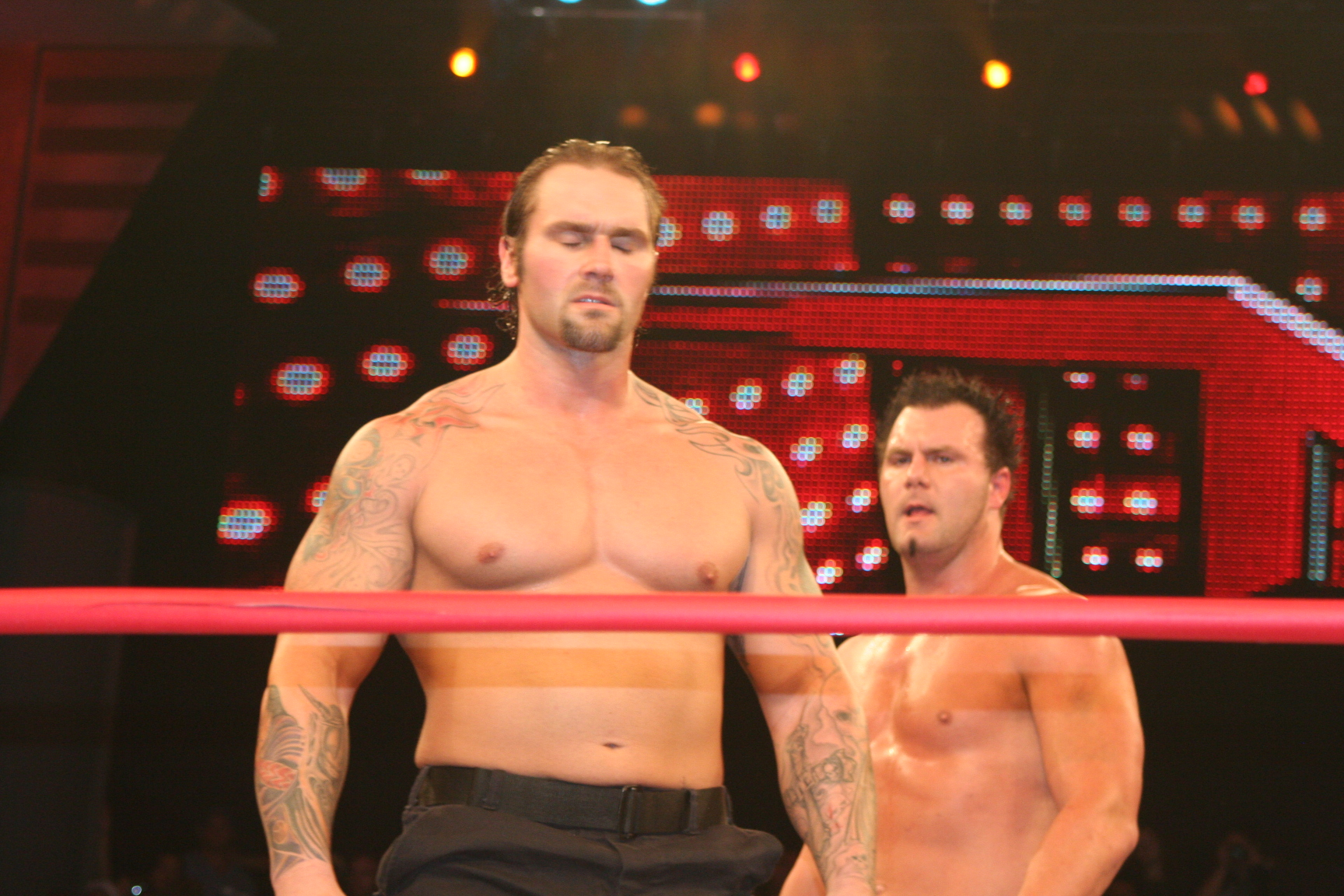 Professional wrestlers Gunner (Phill Shatter) and Murphy (Mikael Judas) at a TNA Impact! taping.